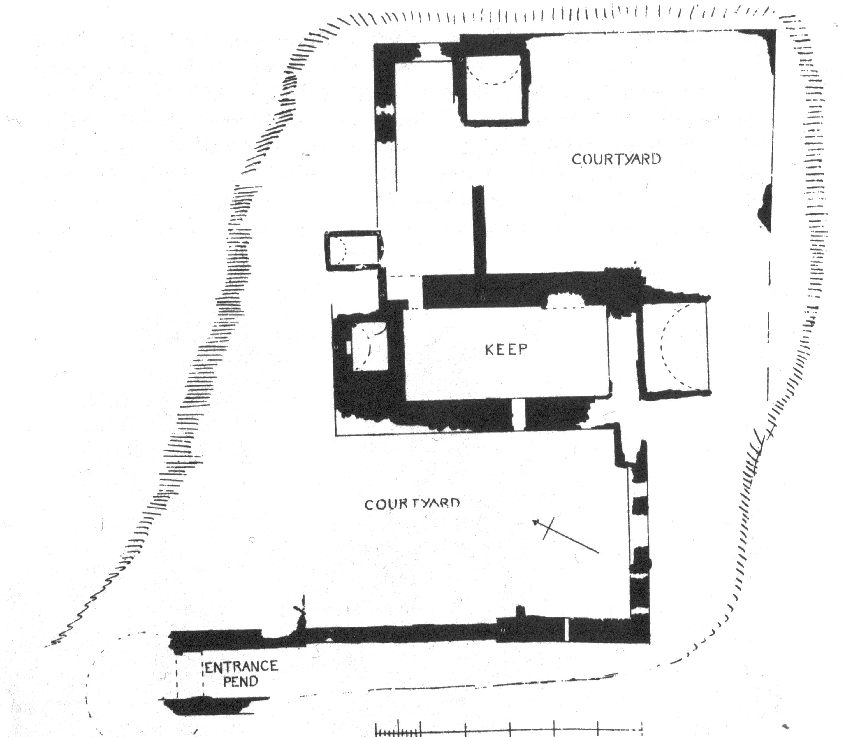 Craigie Castle, South Ayrshire, Scotland. Plan of the castle.